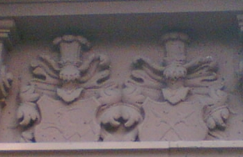 coat of arms on top of a stand-alone portal in Wellersen, Germany, stonemasonry work from 1612